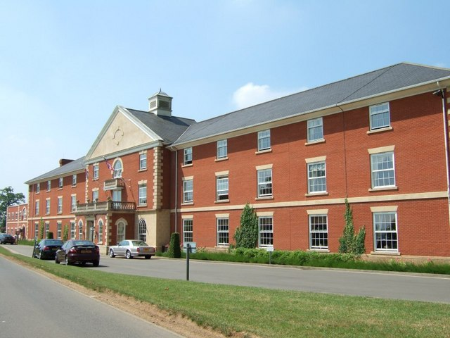 Whittlebury Park Hotel. The frontage of the large hotel that forms part of the substantial Whittlebury Park Golf and Country Club.